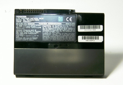 Lithium-ion_Polymer_battery_Toshiba_PA-3154-U1BRS